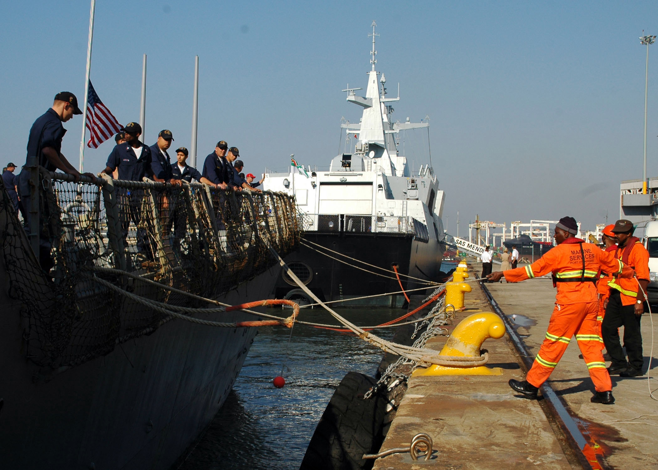 DURBAN, South Africa (July 13, 2009) The guided-missile destroyer USS Arleigh Burke (DDG 51) arrives in Durban, South Africa. Arleigh Burke is in Durban to kick off a series of cooperative at-sea and ashore training exercises with the South African Navy. (U.S. Navy photo by Mass Communication Specialist 2nd Class David Holmes/Released)